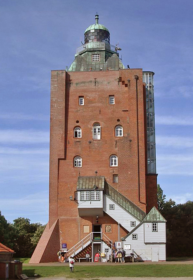 Neuwerk Island Lighthouse, Hamburg, Germany.